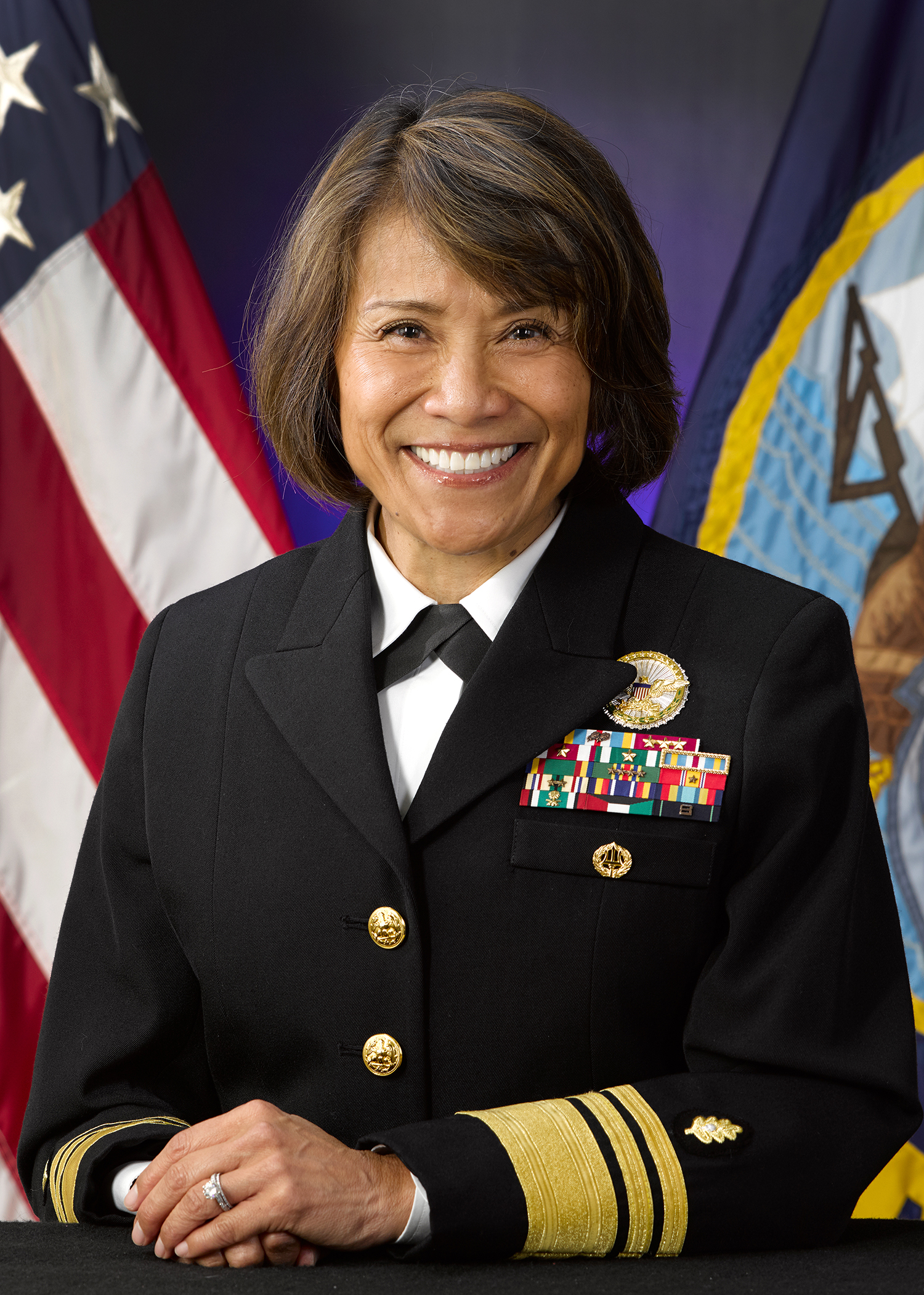 VICE ADMIRAL RAQUEL C. BONO DIRECTOR, DEFENSE HEALTH AGENCY MEDICAL CORPS, UNITED STATES NAVY